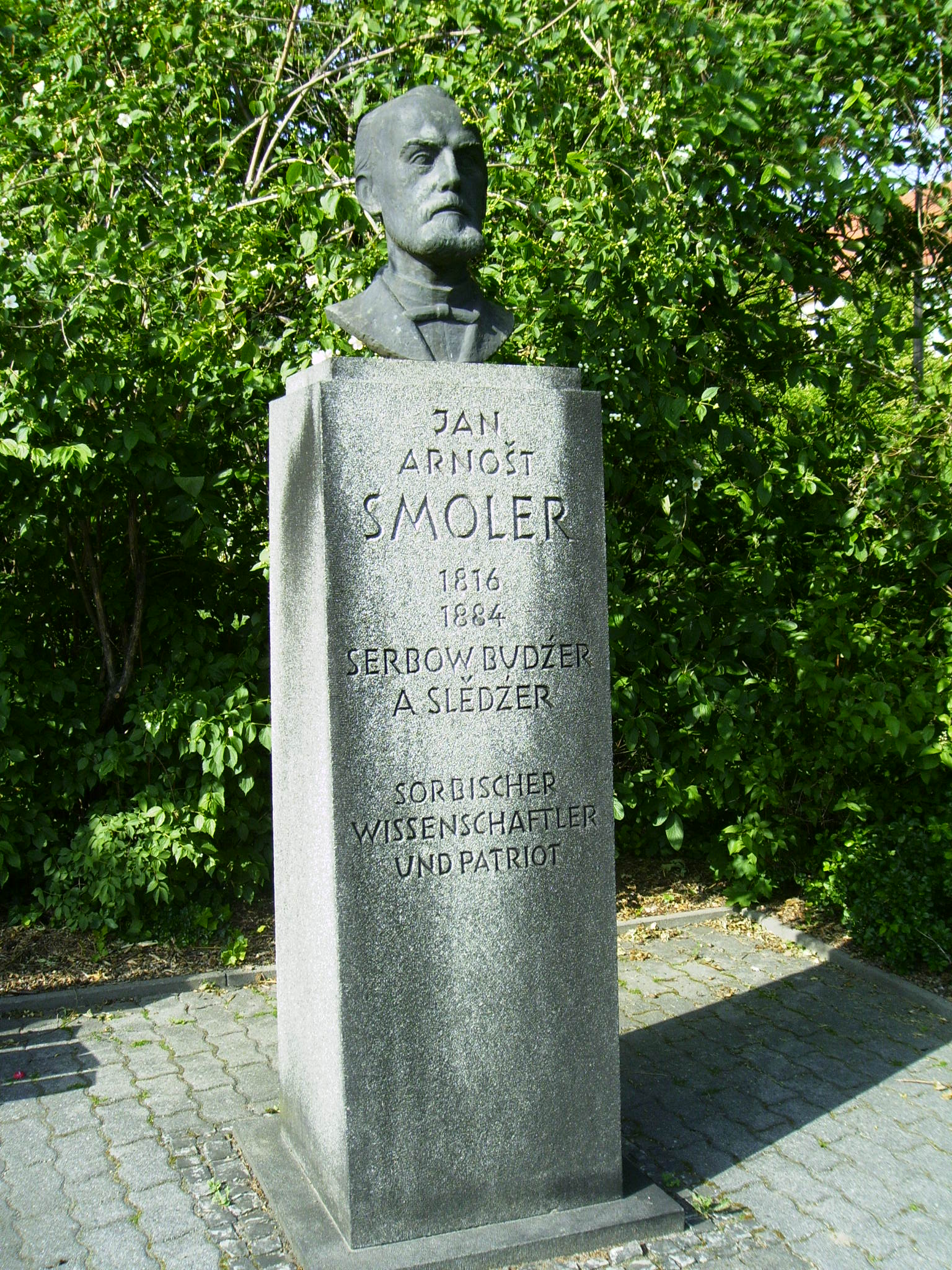 Jan Arnošt Smoler Monument in Bautzen.